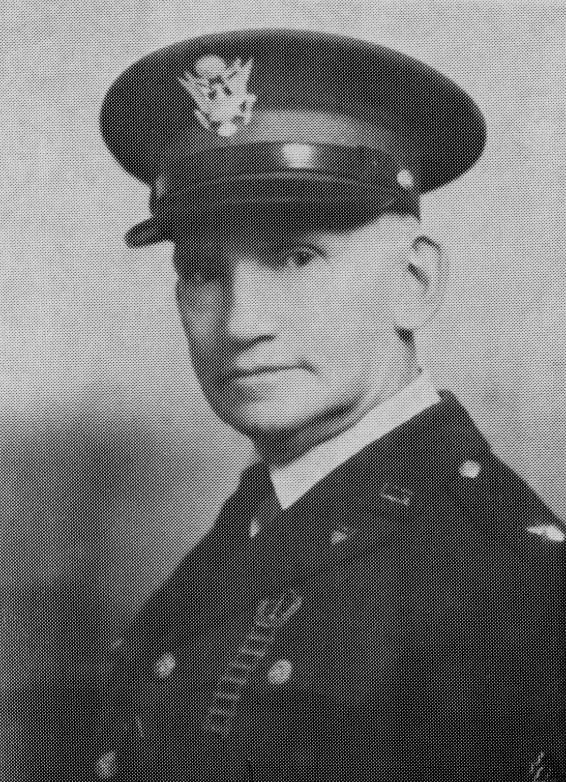 Jay H. White